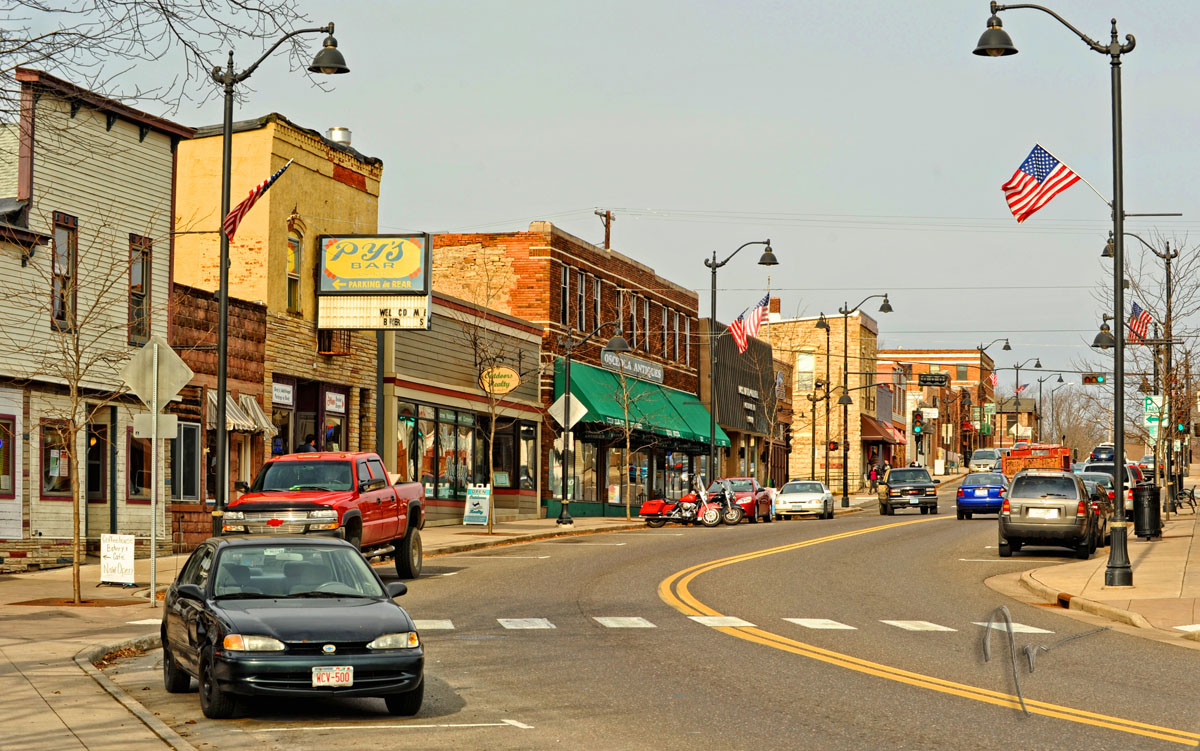 circa 2012